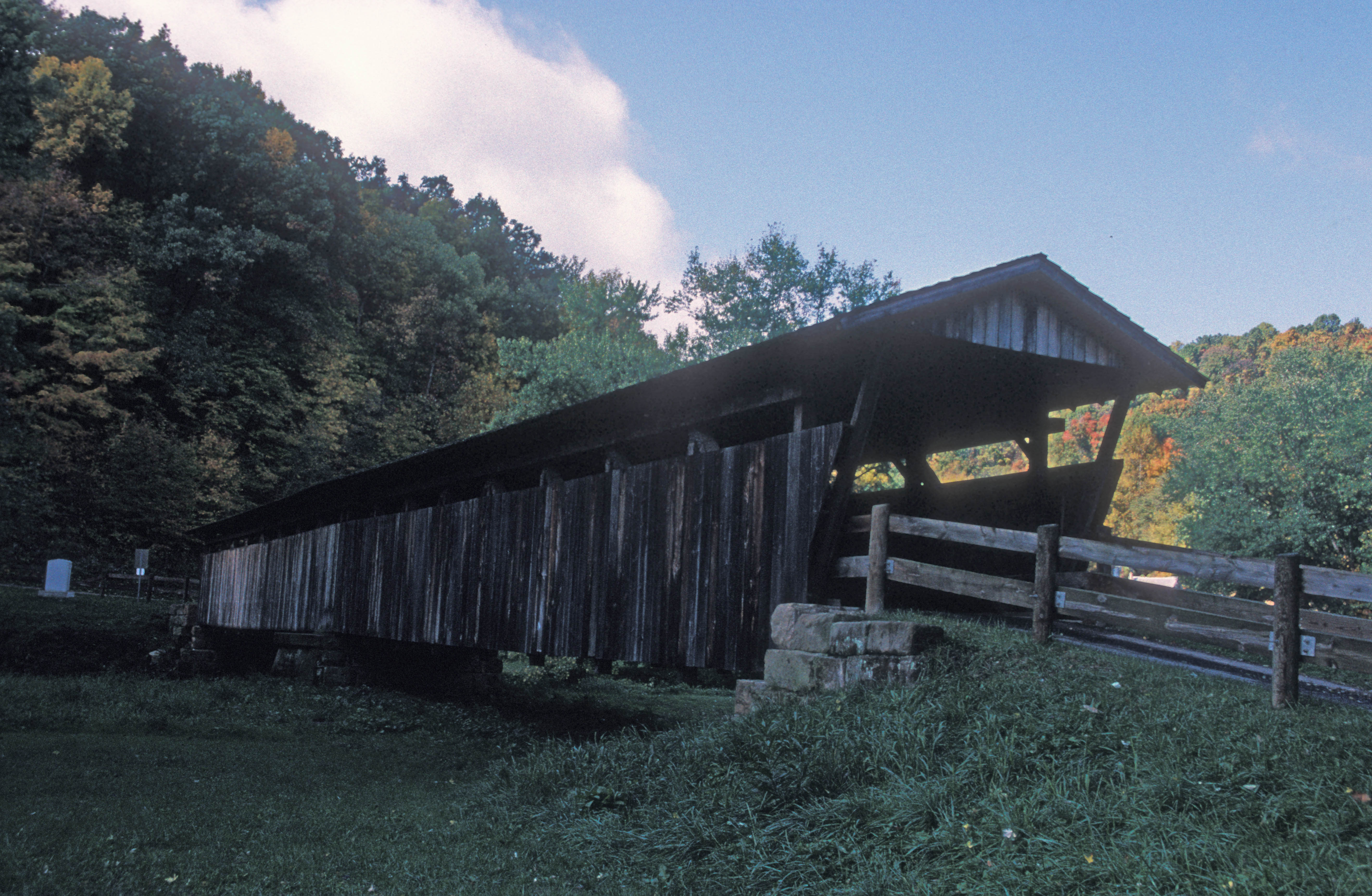 HELMICK CB NEAR BLISSFIELD; 2 SPAN 166' MKING OVER KILLBUCK CREEK